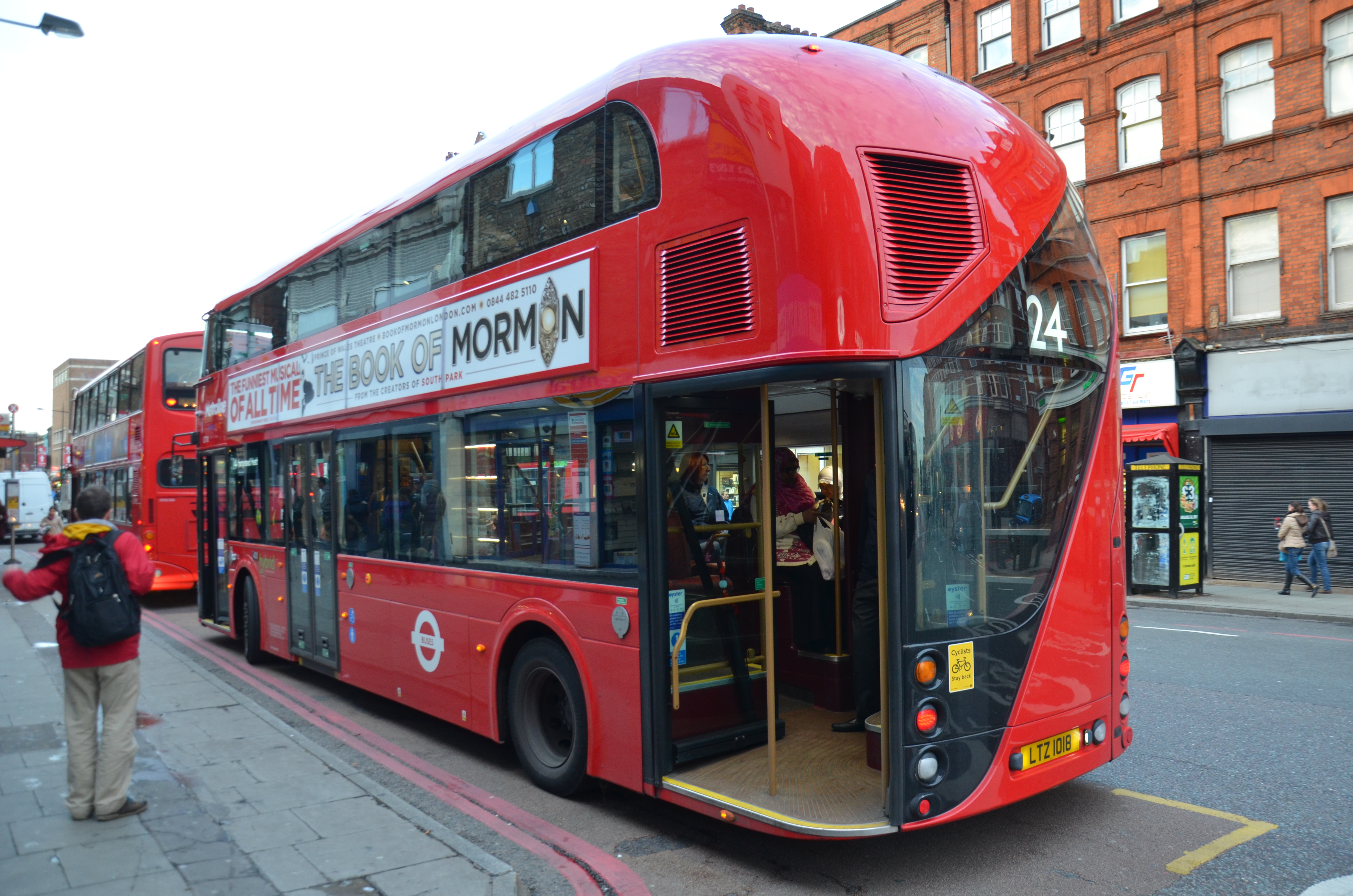 New Bus for London i Camden Town